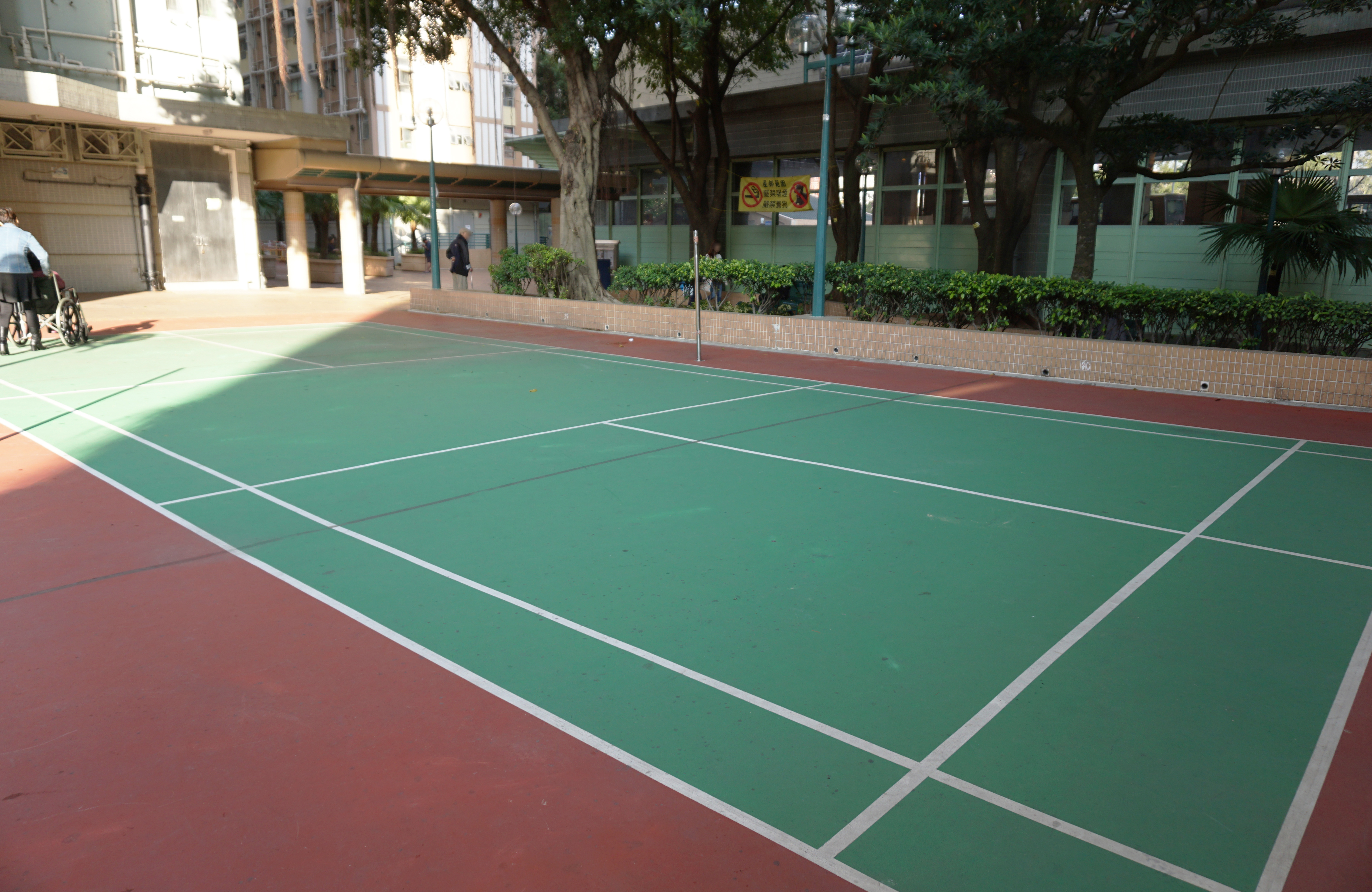 Po Tin Estate in Tuen Mun, Hong Kong.